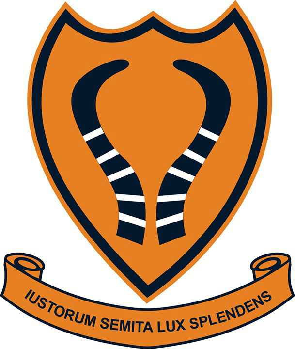 Potch Boys Crest